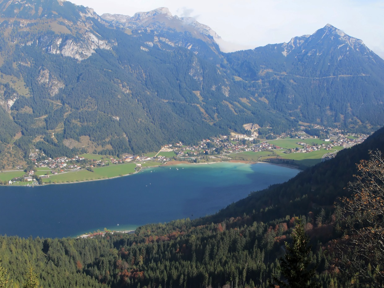 Southern Part of Lake Achensee with Village Maurach, View from West